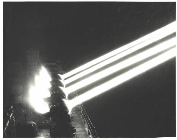 The U.S. Navy inshore fire support ship USS White River (LSMR-536) firing rockets off the coast of Vietnam at night, in the 1960s.